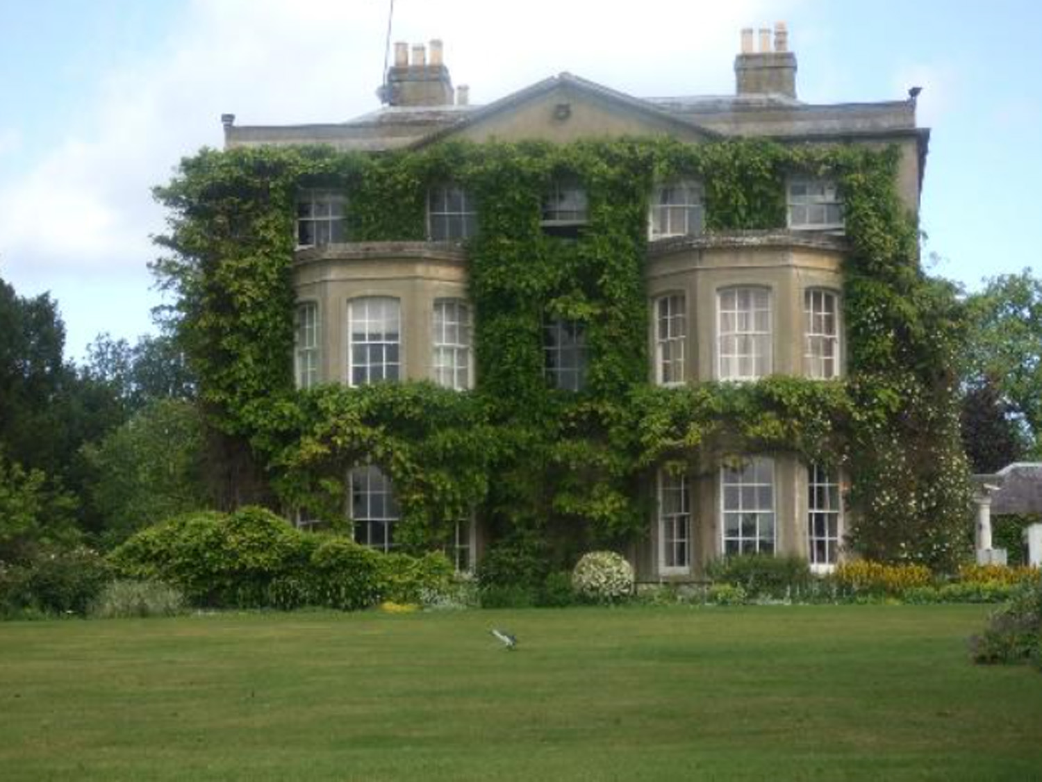 Northbrook Park, Farnham, Surrey